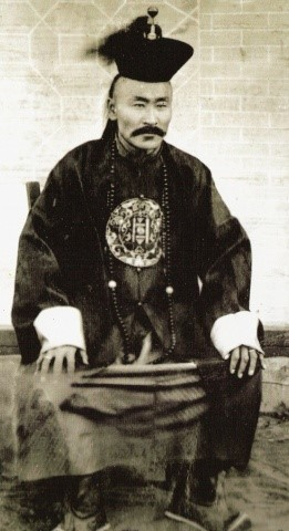 Manlaibaatar Damdinsüren, a Mongolian general and politician in the 1911-1920 period.Монгол: Манлайбаатар Дамдинсүрэн